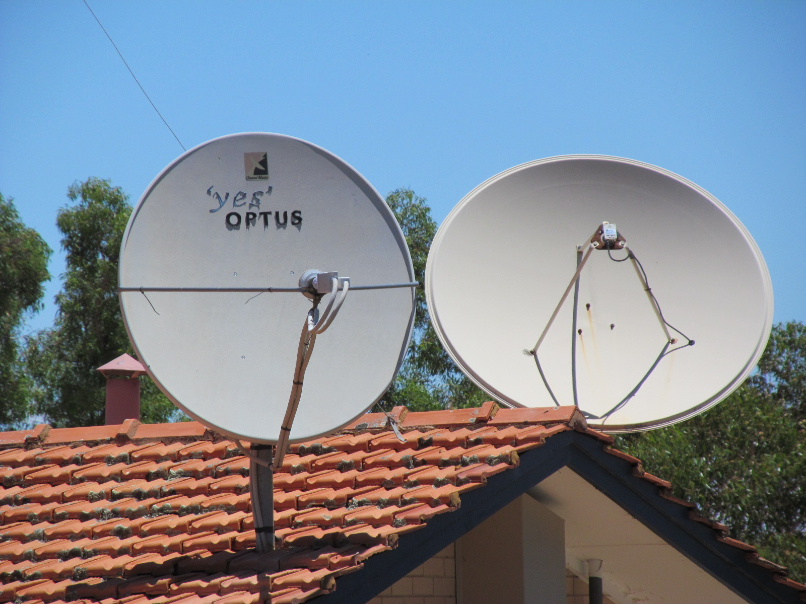 Satellite dishes attached to Goomalling Primary School, Goomalling, Western Australia